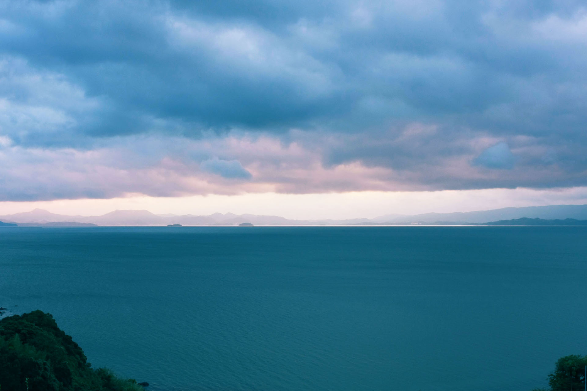 Ohmura bay , Nagasaki Japan.